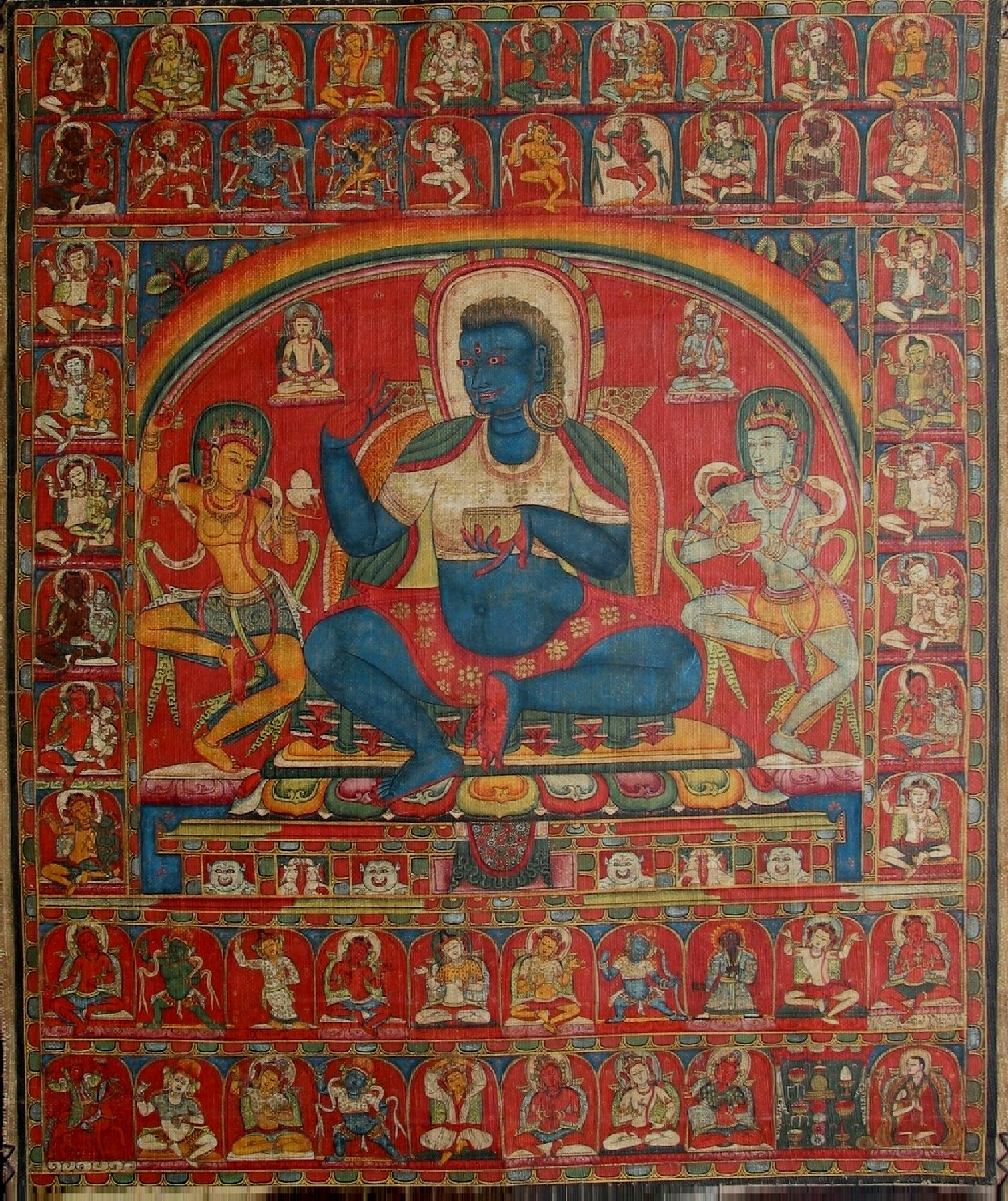 Teacher (Lama) - Drenpa Namka. 14th century, Collection of Private